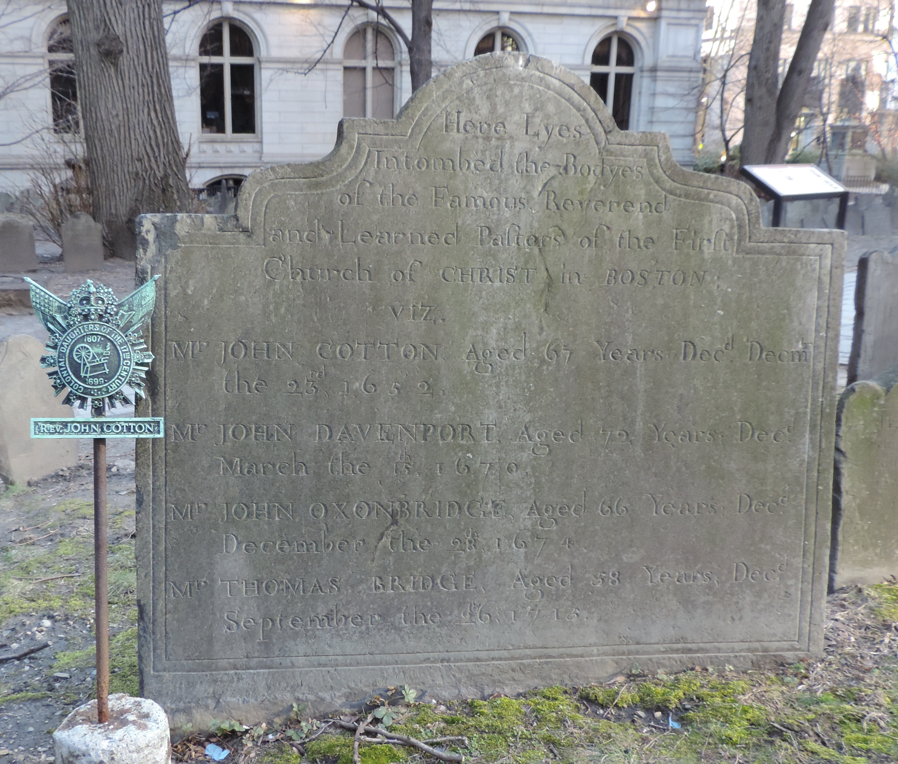 Cenotaph for Reverends John Cotton, John Davenport, John Oxenbridge, and Thomas Bridge, Kings Chapel Burying Ground, Boston, Mass.